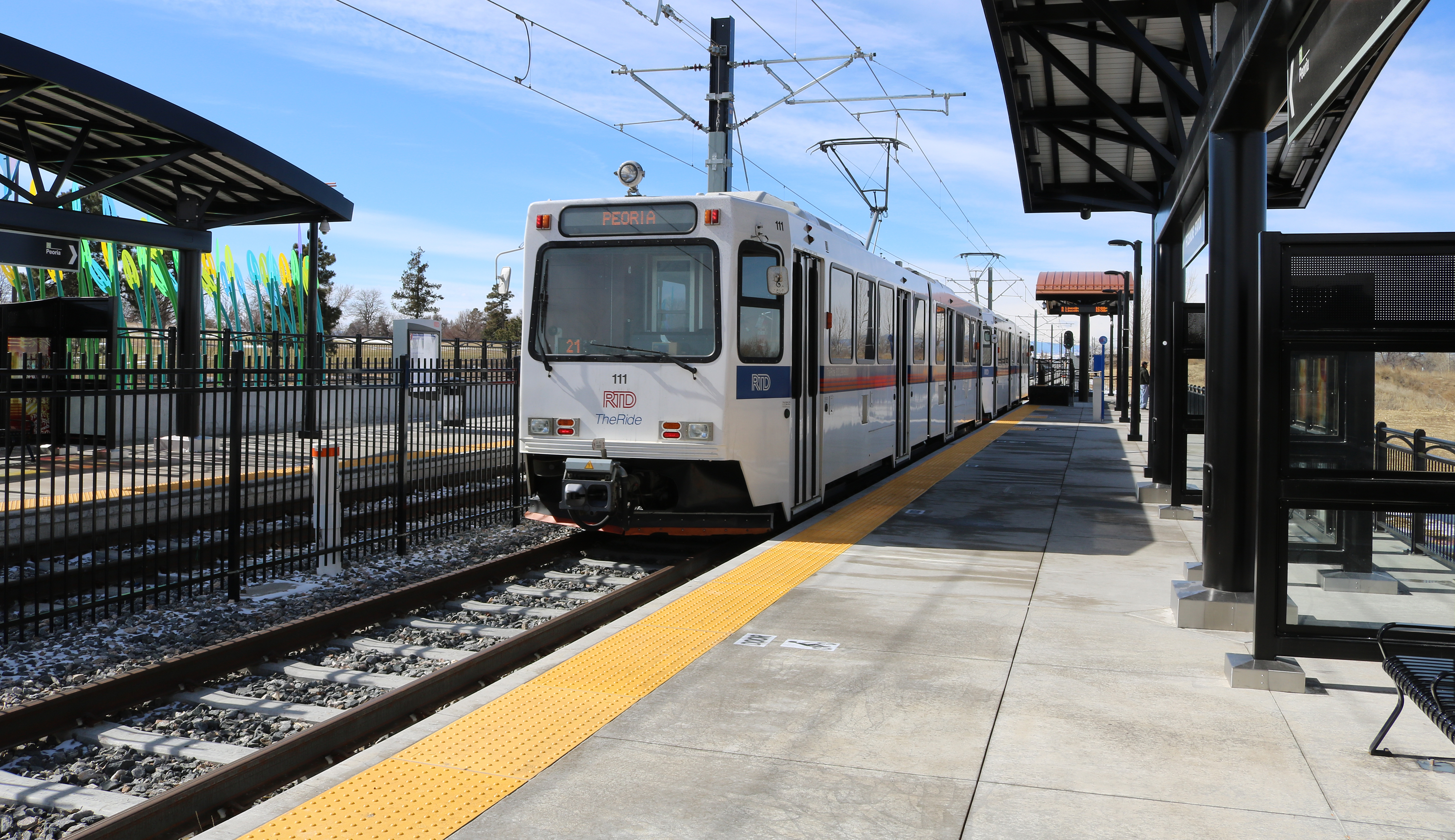 Denver RTD's Fitzsimons Station, located at 2550 N Fitzsimons Parkway in Aurora, Colorado. The station, opened in 2017, is on the RTD's R-Line.